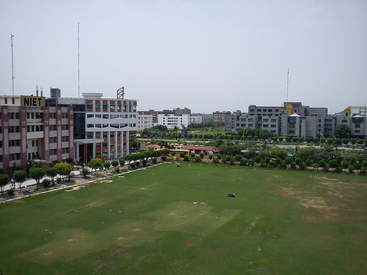 Niet Campus